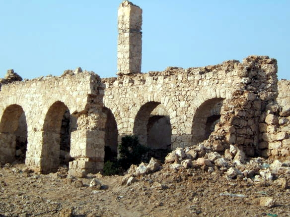 Ruins of the Sultanate of Adal in Zeila (Saylac), Somalia.